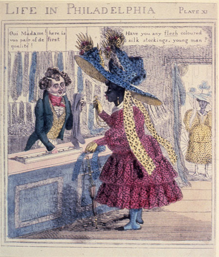 Aquatint cartoon, drawn and etched by E. W. Clay. Philadelphia: Published by Wm. Simpson, 1828. Caption: "Have you any flesh coloured silk stockings, young man? Oui Madame! here is von pair of de first qualite!"